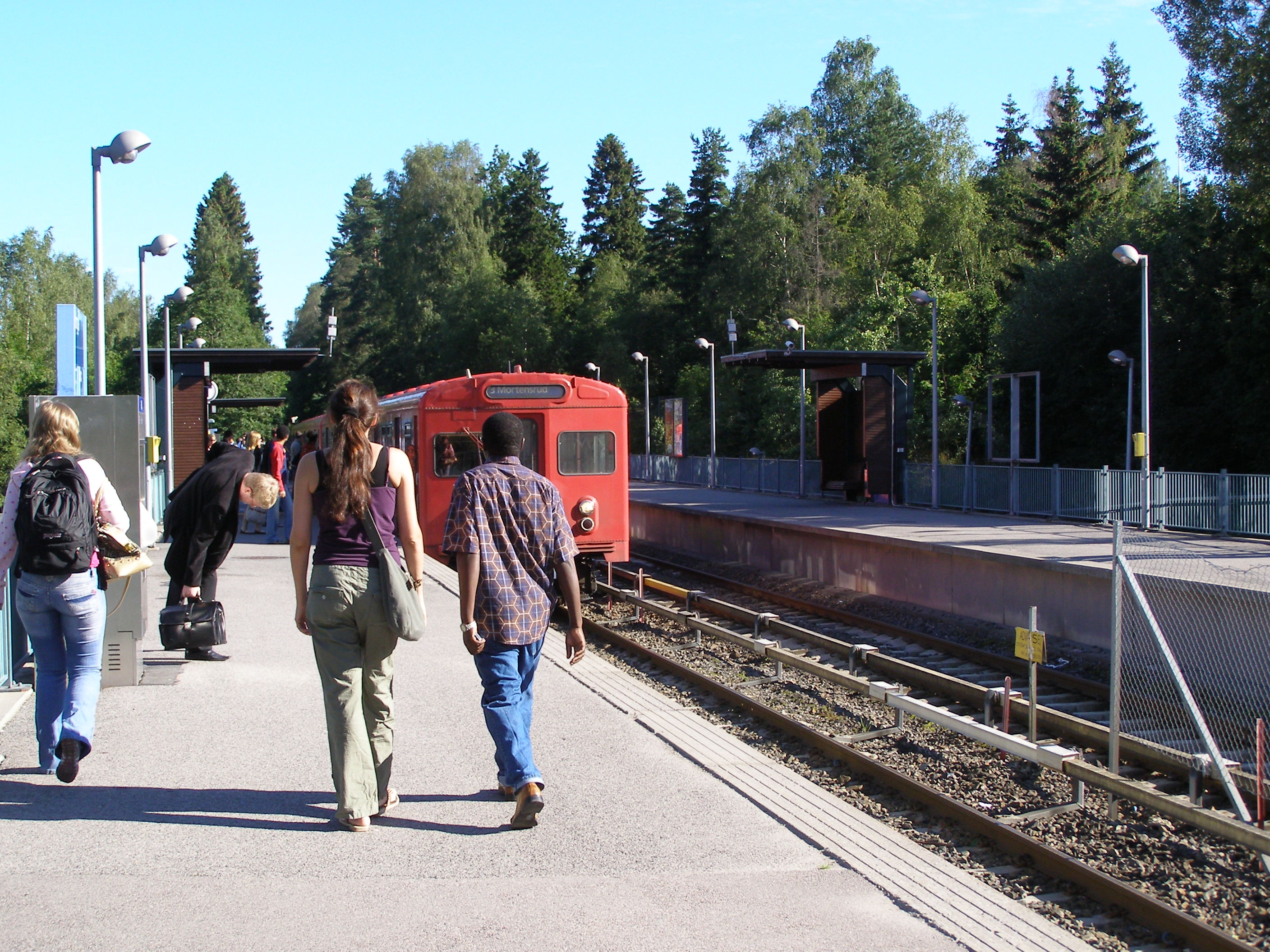 Kingsjå Station of the Oslo Metro